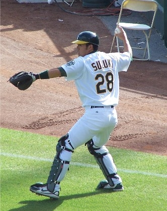 Kurt Suzuki as a big-leaguer in 2007. Photo taken and uploaded to Wikipedia by Steve Bowles (Gimpy56) 22:22, 22 June 2007 . . Gimpy56 . . 332×419 (60 KB)